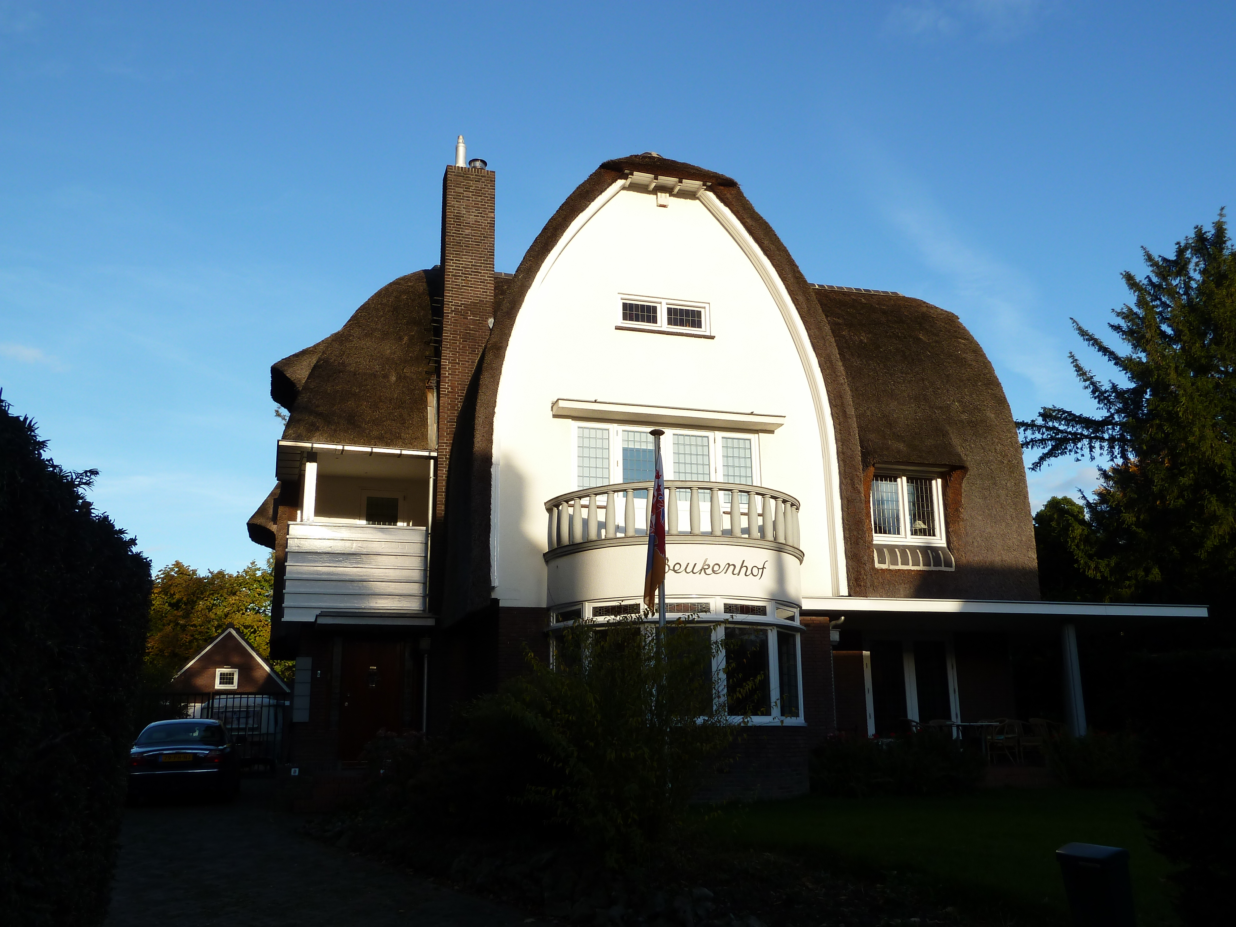 Villa Beukenhof, Broekhem 6, Valkenburg, Limburg, the Netherlands